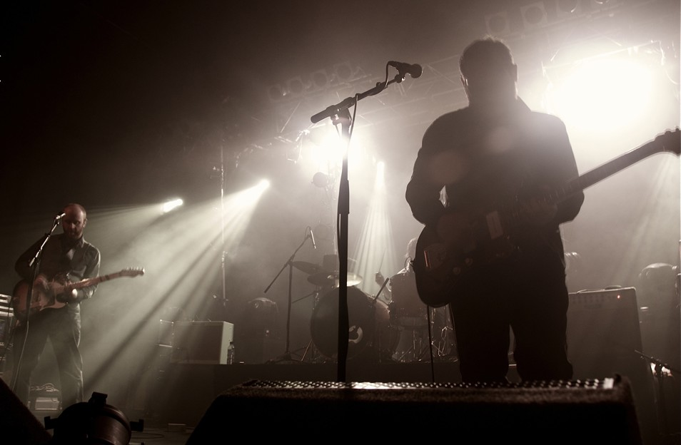 the Unwinding Hours ABC (O2 ABC) Glasgow more at